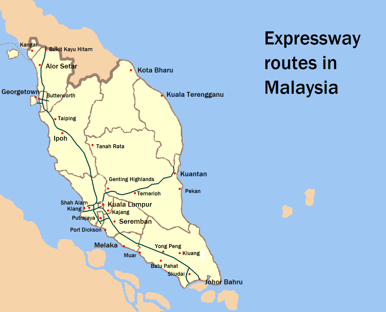 Expressway routes in Malaysia. Note: there are no expressways in East Malaysia